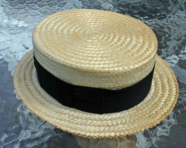 A boater-style straw hat